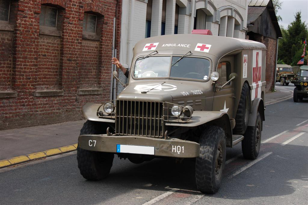 Dodge_wc54